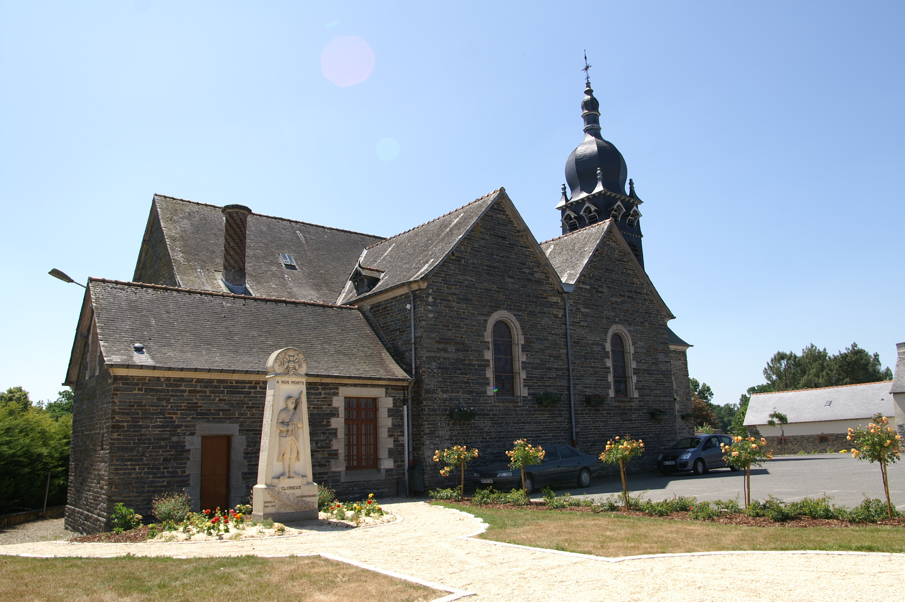 Church of Ossé.